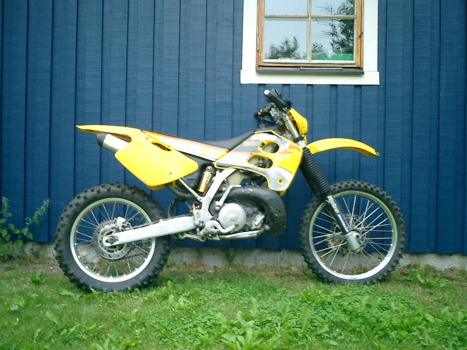 This is a GasGas EC200 (EnduroCross), model year 2000 with a 200cc 2-stroke engine. Weight 100 kg, Power 38 bhp